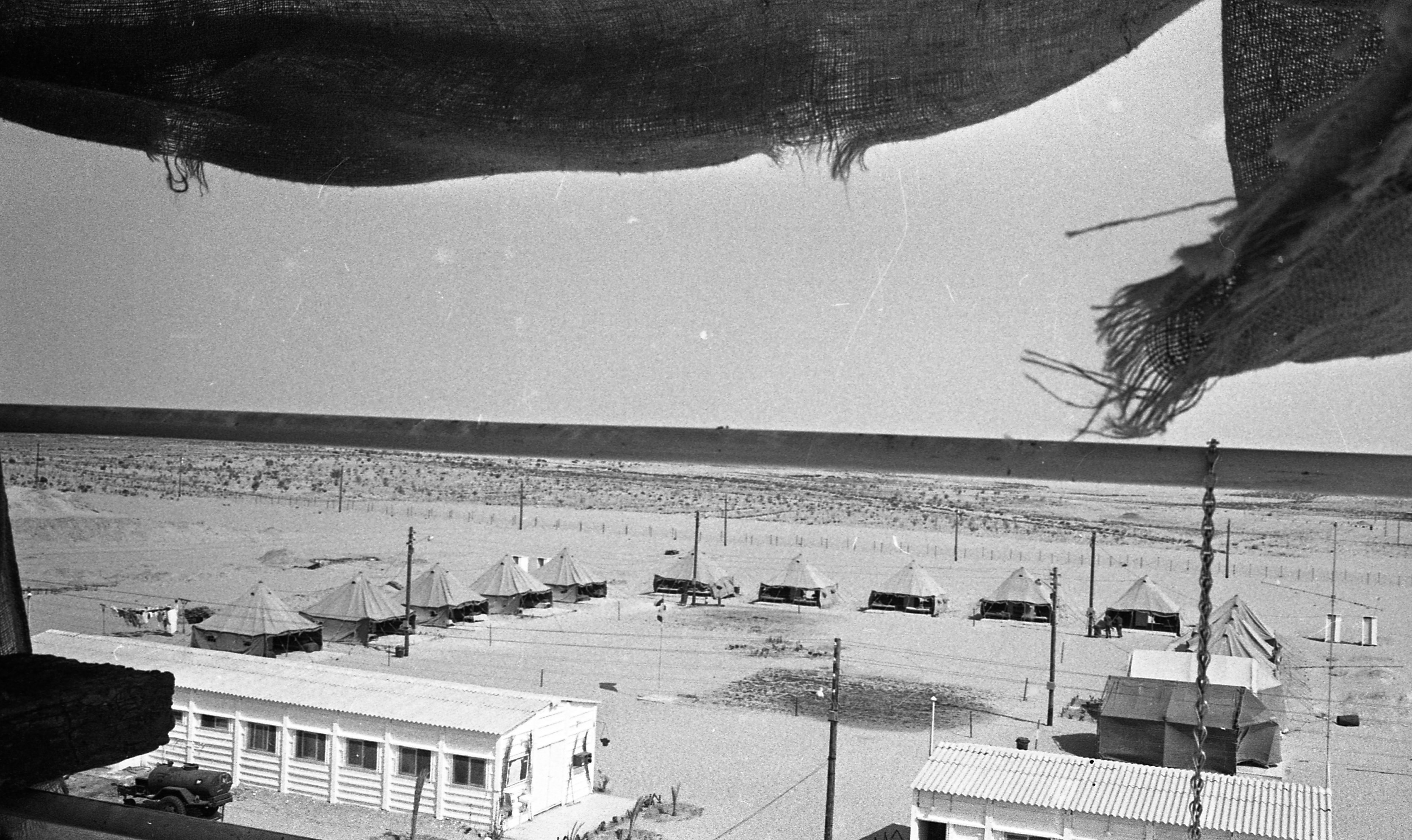 The new Nahal military settlement, Nahal Dikla, was officially founded in north Sinai near the town El-Arish.